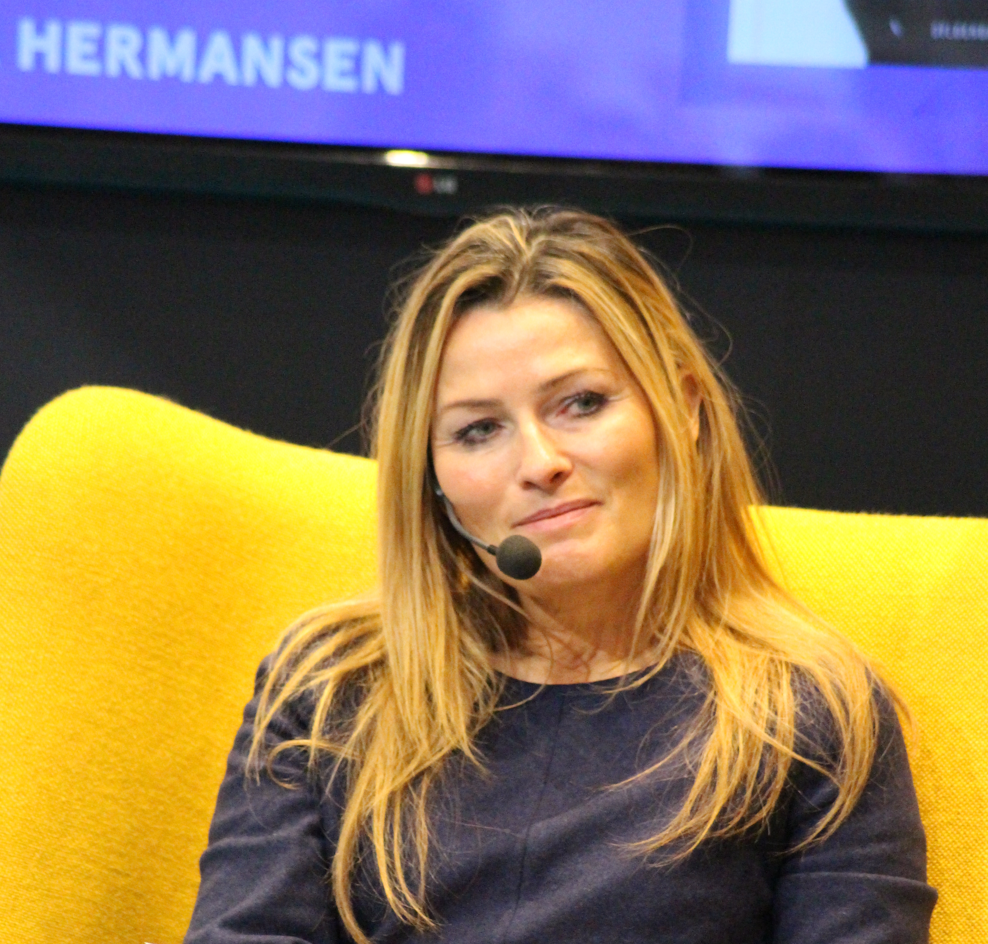 Anne Sophia Hermansen